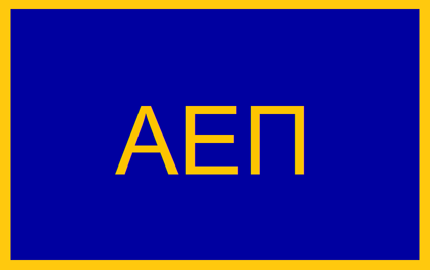 Flag with the colors of the fraternity Alpha Epsilon Pi.